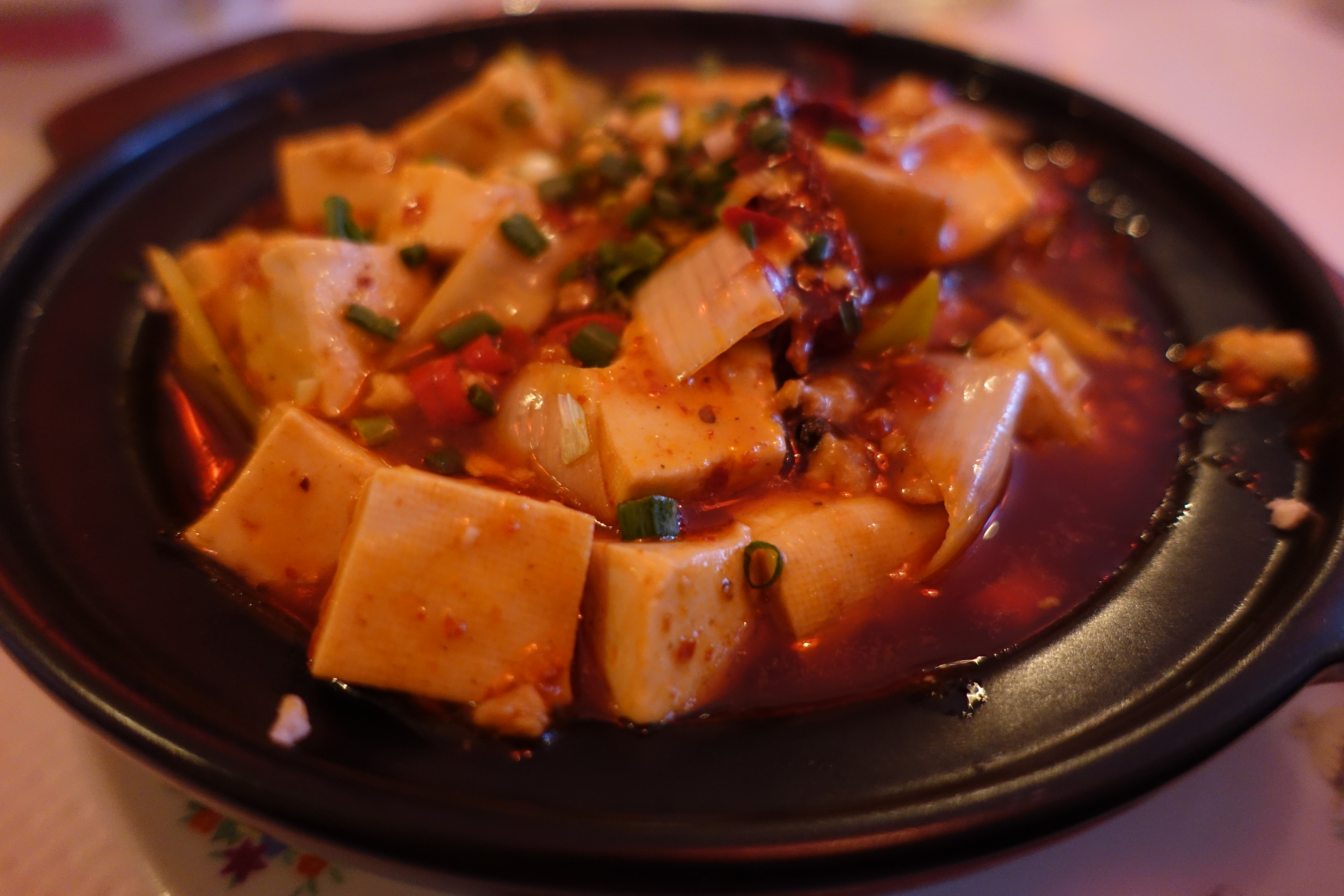 Mapo Tofu @ Fire Town @ Montparnasse @ Paris